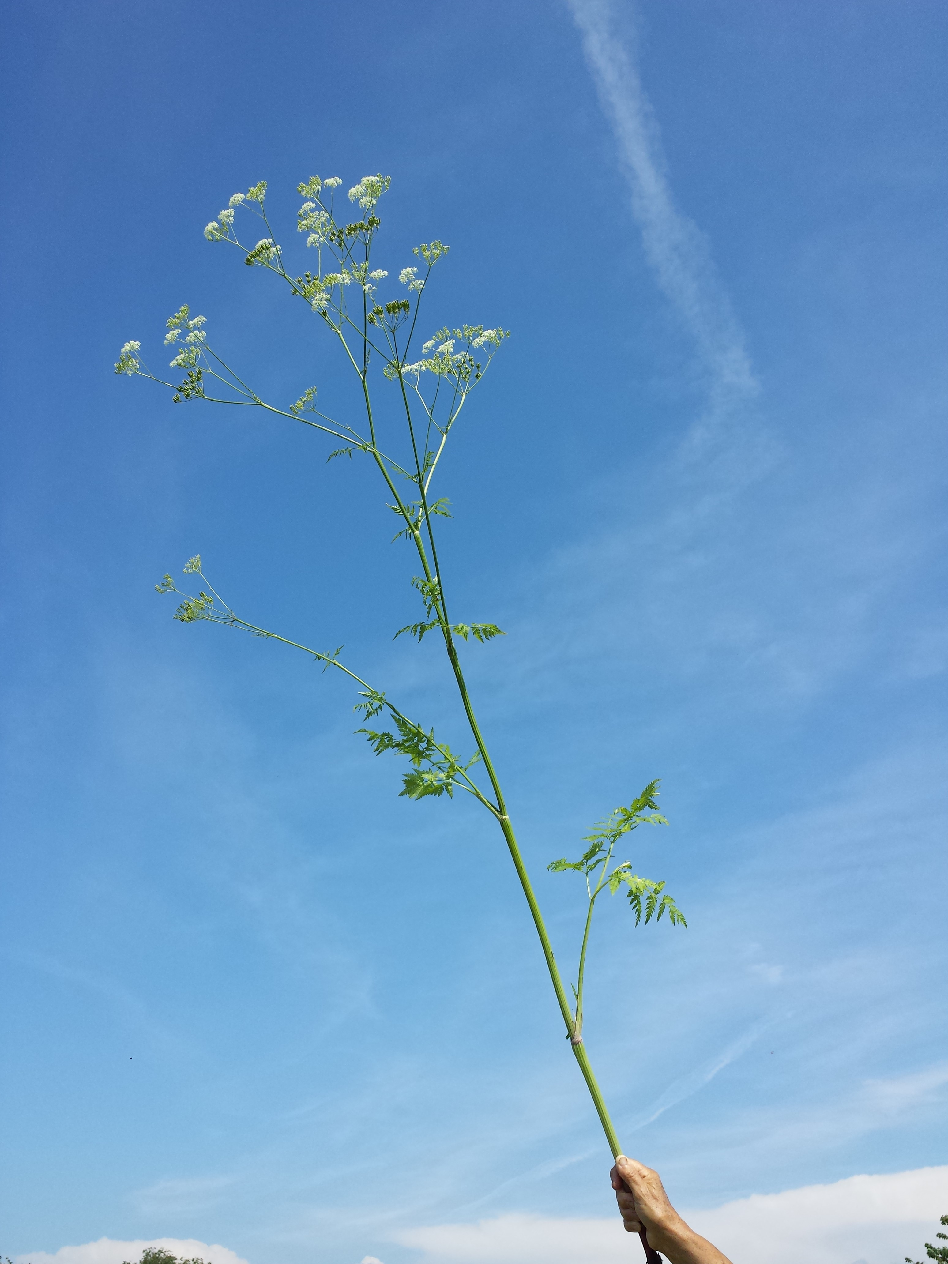 Taxonym: Anthriscus sylvestris ss Fischer et al. EfÖLS 2008 ISBN 978-3-85474-187-9 Location: near Steinberg near Niederhollabrunn, district Korneuburg, Lower Austria - ca. 300 m a.s.l. Habitat: wayside